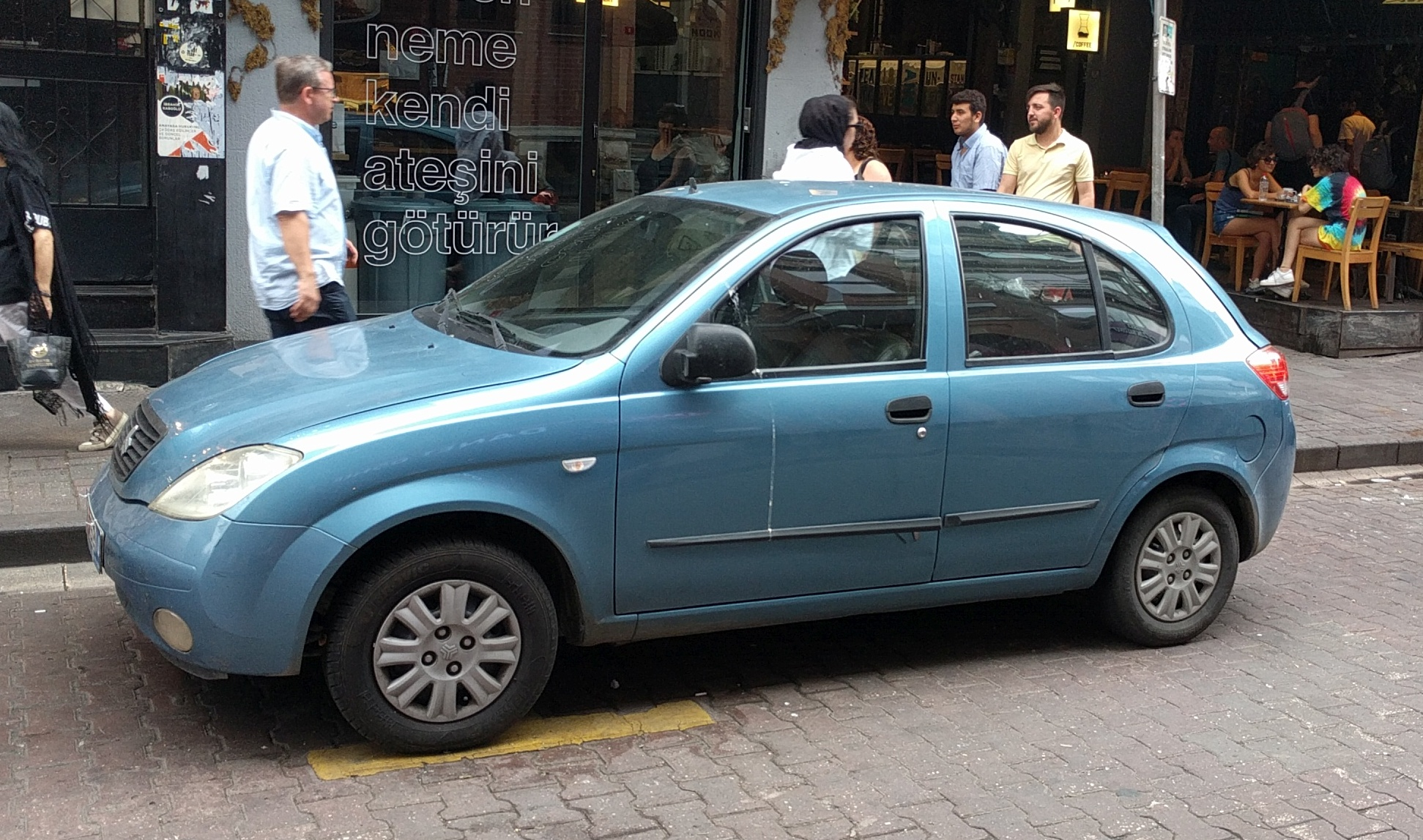 A SAIPA Tiba Hatchback with Iranian number plates was seen in Istanbul in June, 2019